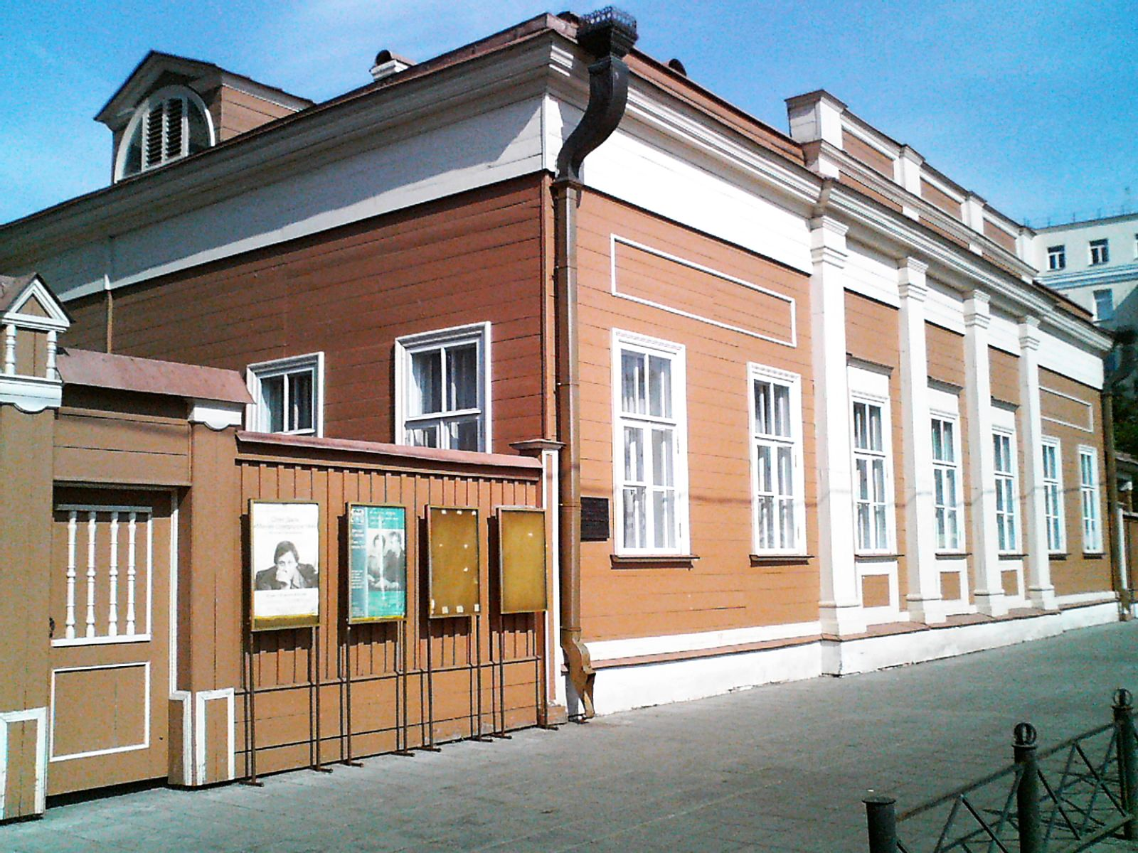 The house in which lived in 1859-1863 a famous Russian actor Mikhail Shchepkin. Moscow, Shchepkina street, 47. Now there is the museum.